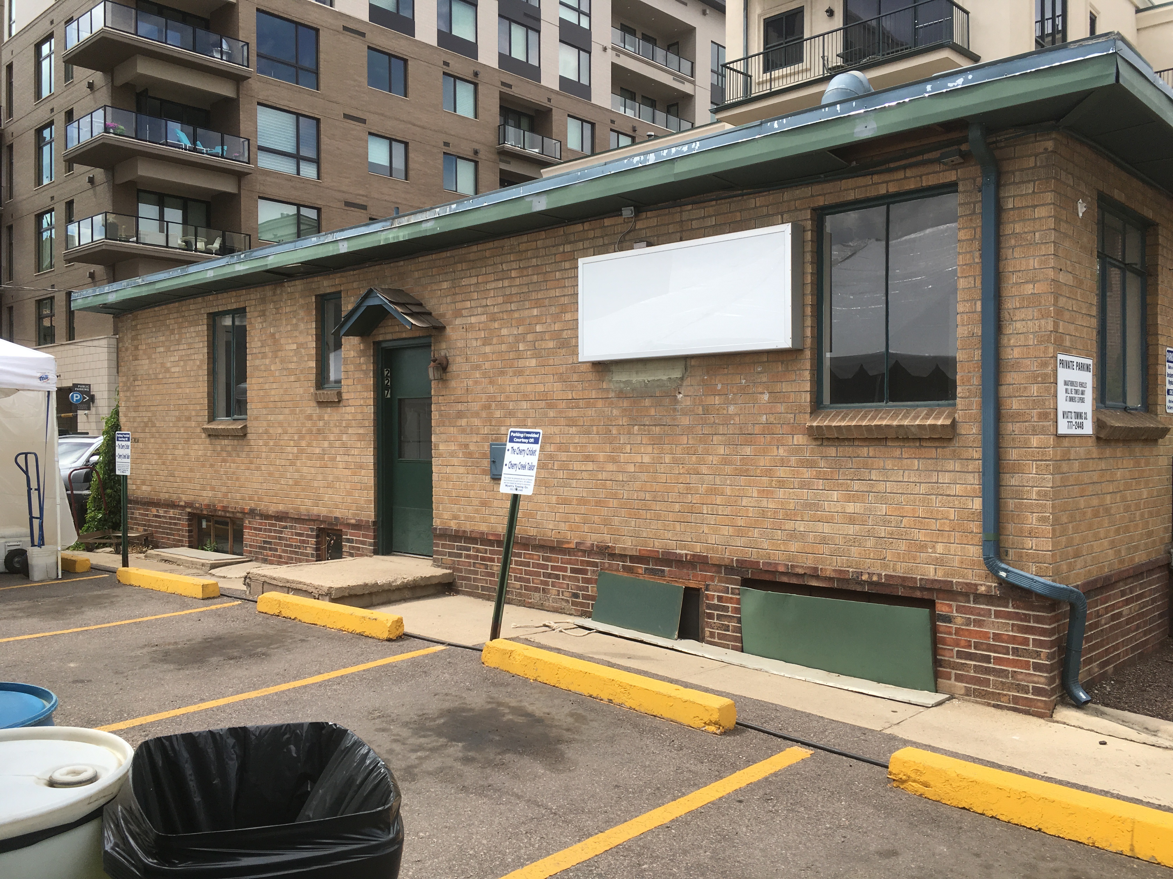 227 Clayton Street. Former location of Bowler Associates LTD. 227 is the side entrance that leads to the basement.